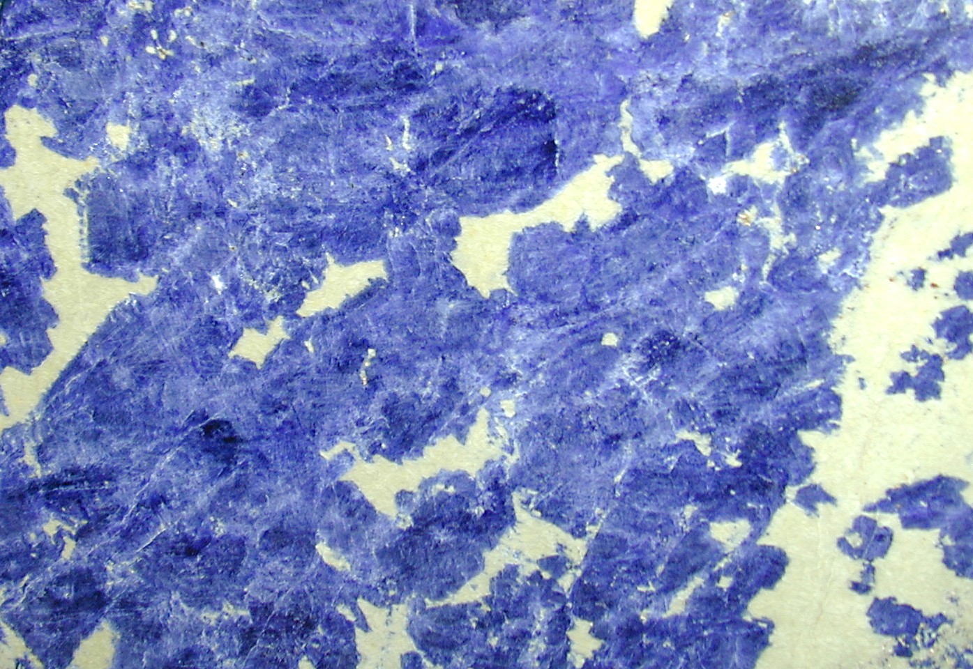 Sodalite-carbonate pegmatite, from Bolivia - polished rock surface. The importer told the photographer that he had tiled one of the Spice Girls bathrooms with it. Uploaded on April 20, 2005 by kevinzim